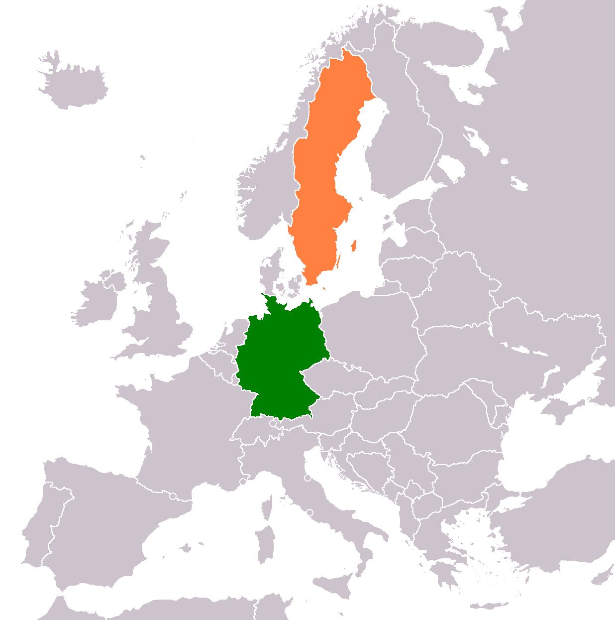 Germany Sweden Locator